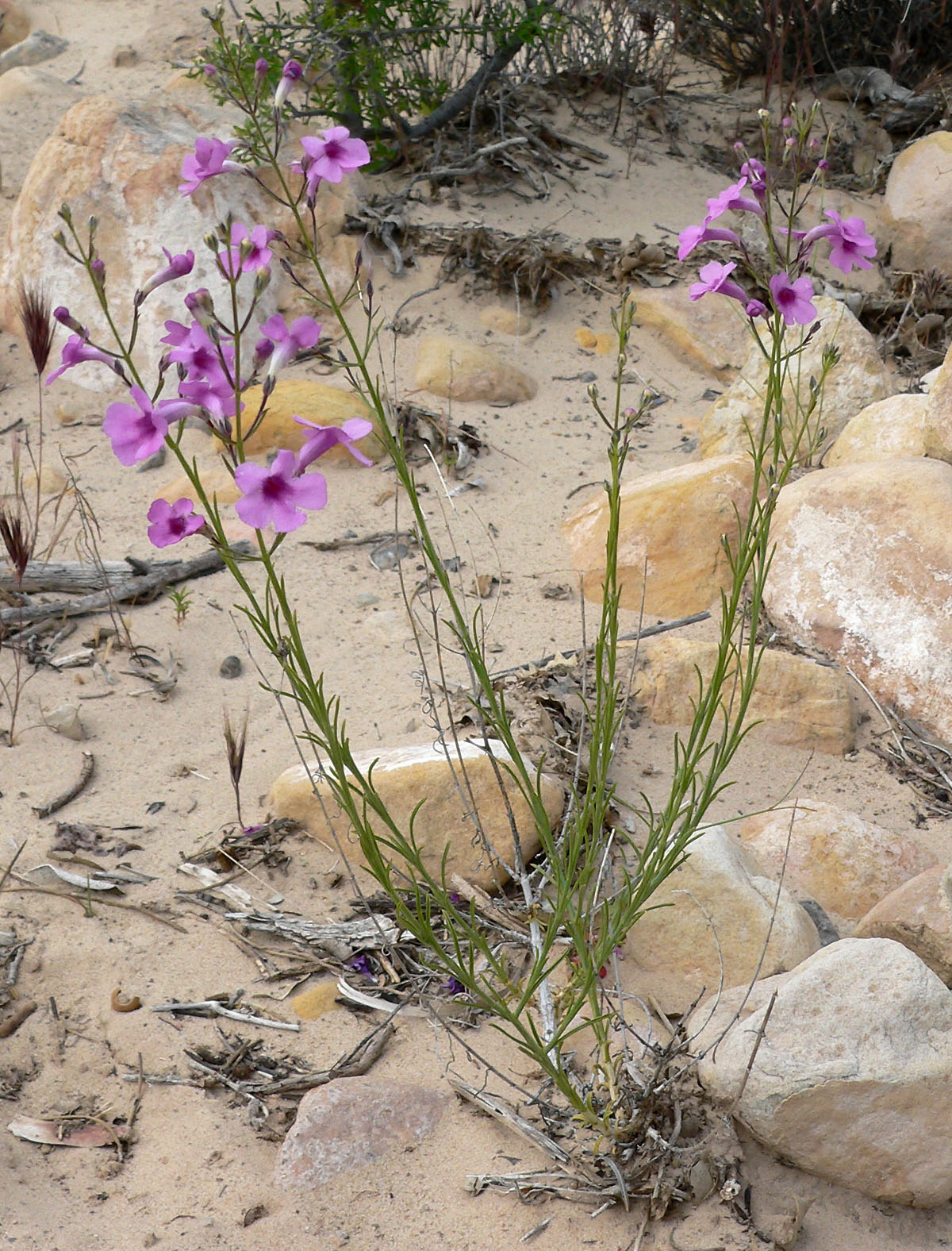 Penstemon ambiguus var. laevissimus in the southern end of Red Rock Canyon near Blue Diamond, Nevada